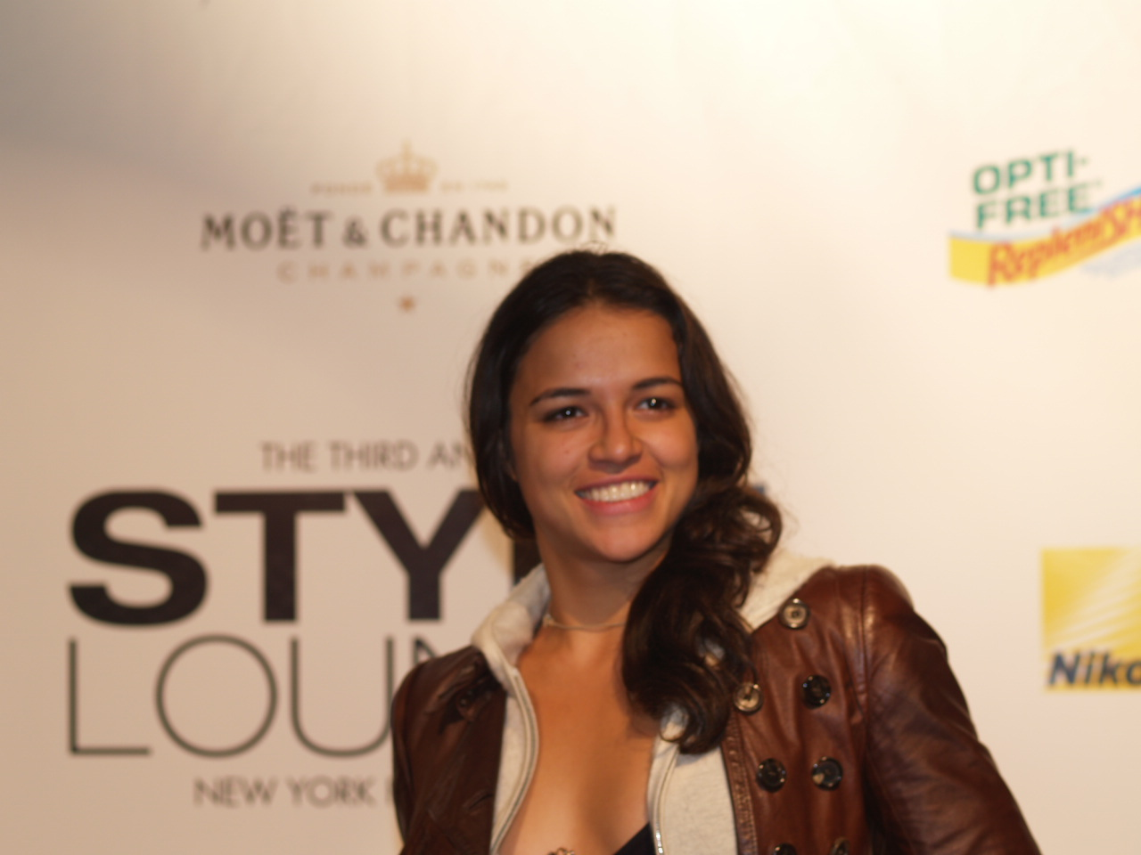 Actress Michelle Rodriguez during New York Fashion Week Spring 2007.